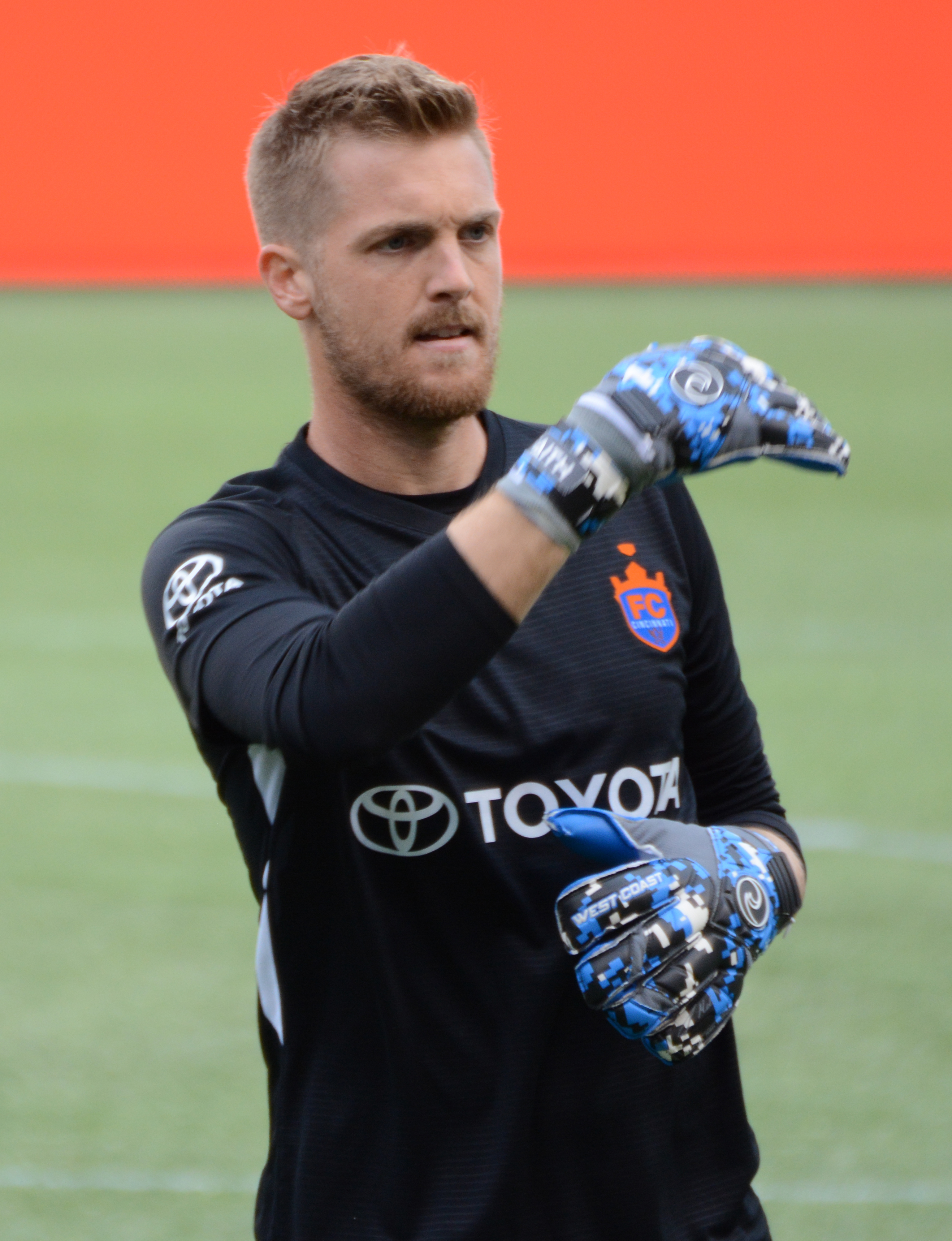 Goalkeeper Evan Newton warming up during a USL regular season match between FC Cincinnati and Pittsburgh Riverhounds at Nippert Stadium in Cincinnati, USA on April 21, 2018.